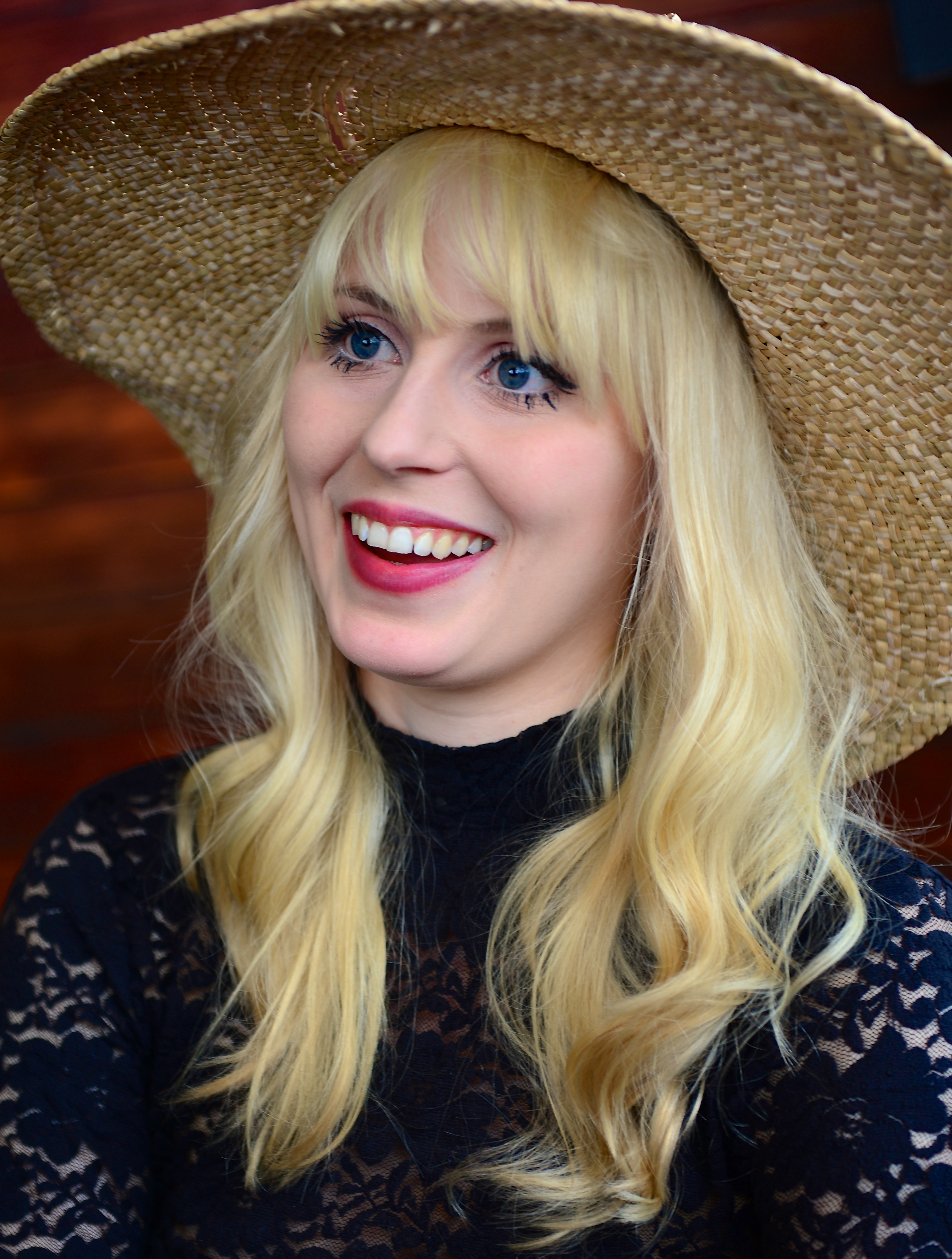 Amanda Jenssen during the stage presentation to Allsång på Skansen in Stockholm June 11, 2013.